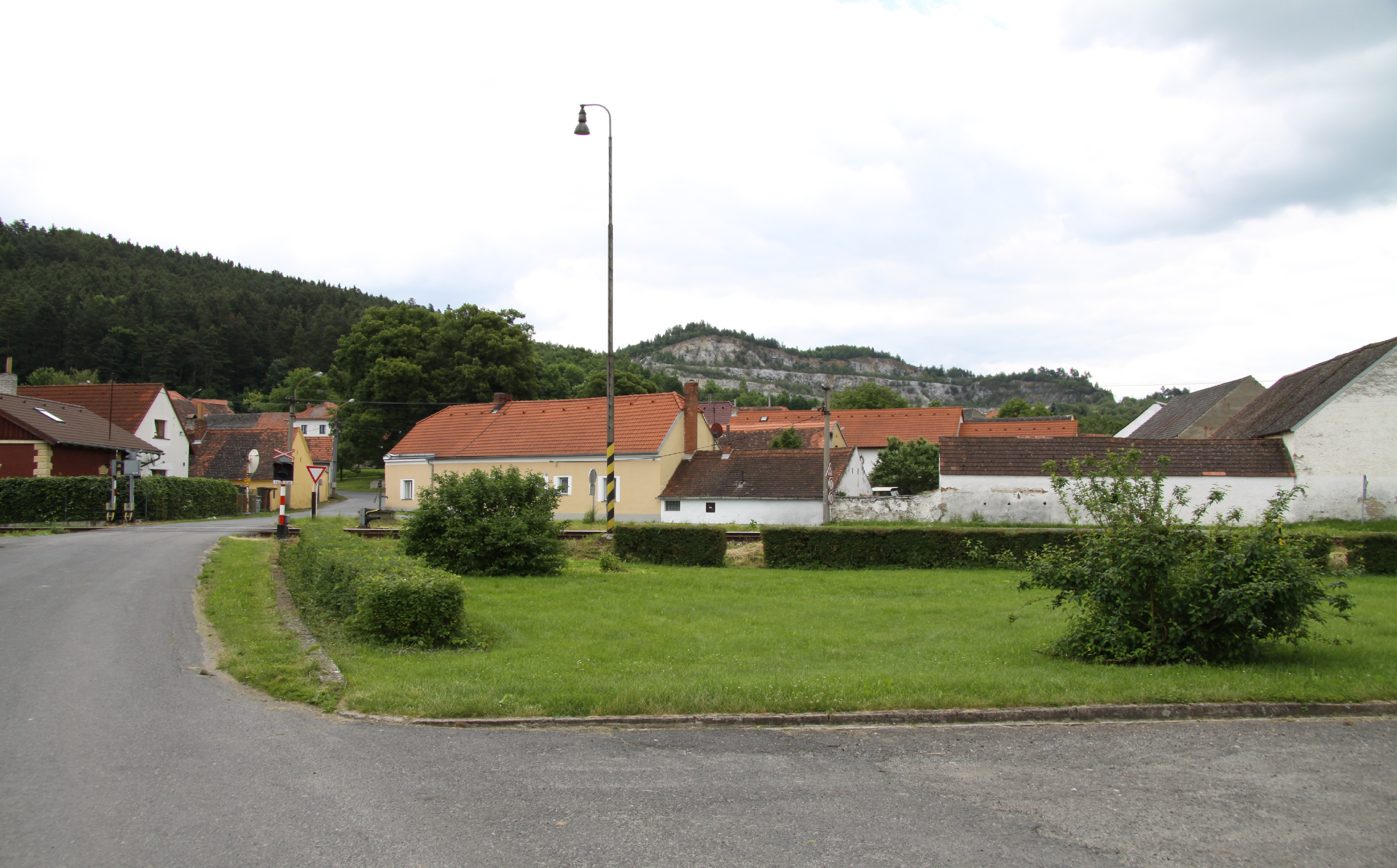 Velké Hydčice village in Klatovy District, Czech Republic. This photograph was taken within the scope of the 'Czech Municipalities Photographs' grant.